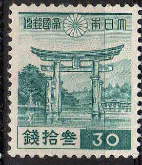 japanese stamp（日本の普通切手）描かれているのは宮島である。 text from right to left, in seal script:「大日本帝國郵便」.